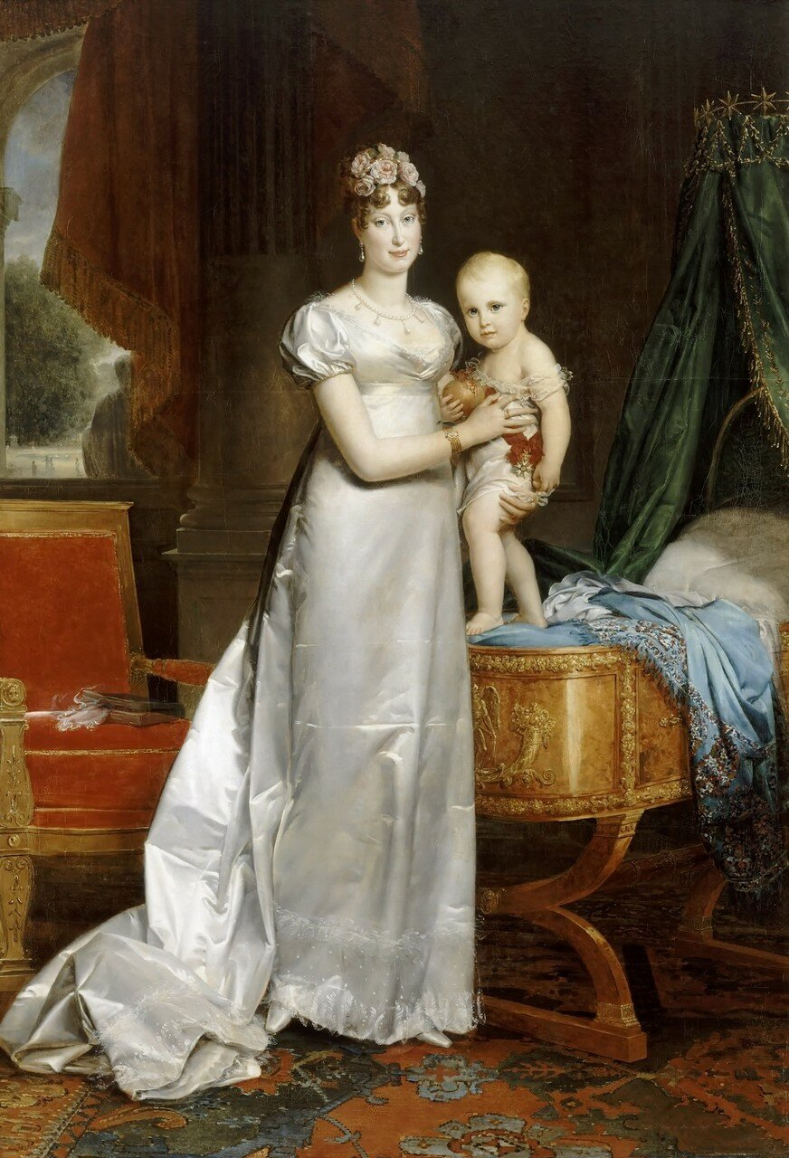 Probably a preparatory painting